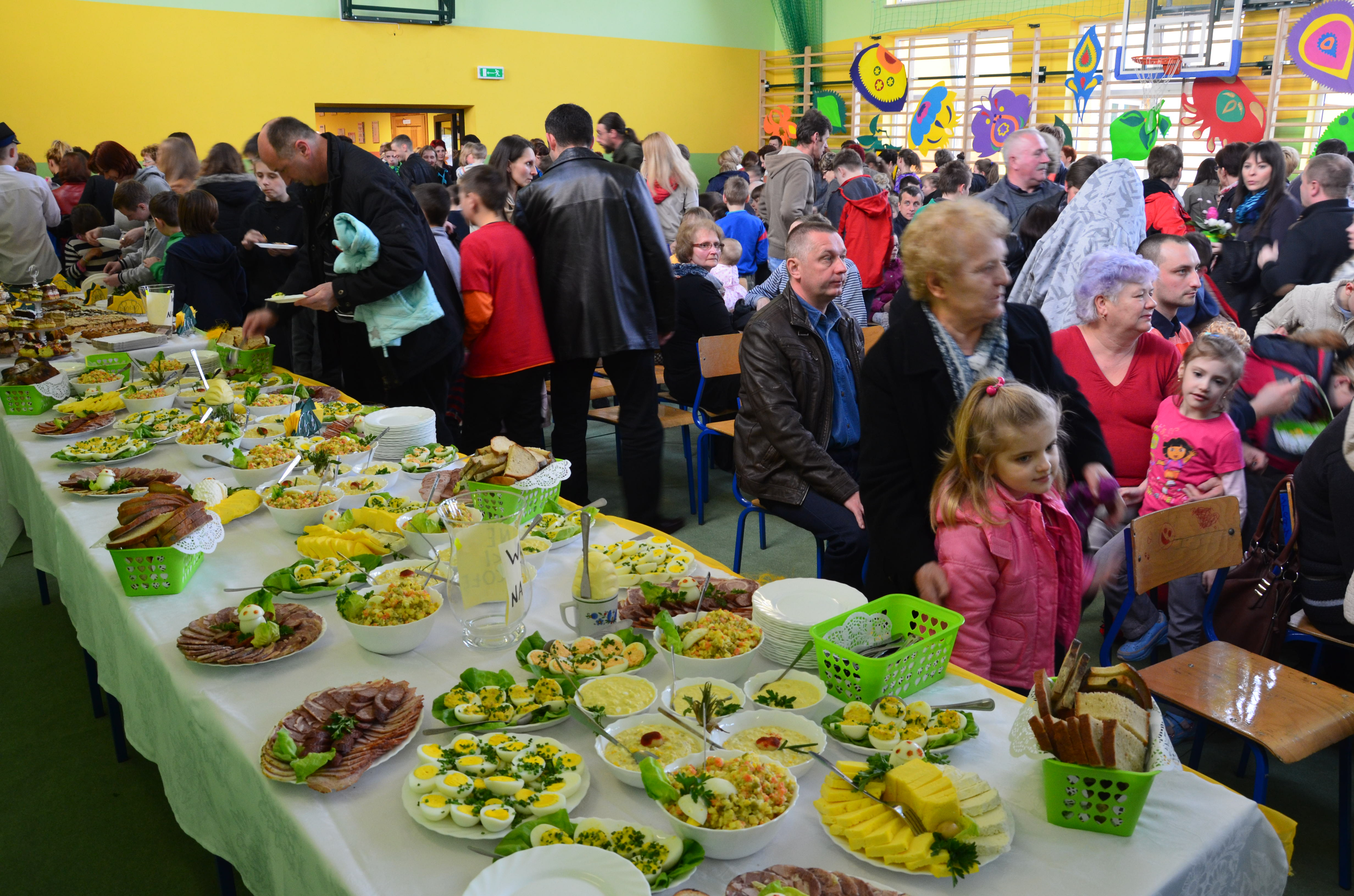 Nowotaniec Osterkirmes 2014 bei Sanok